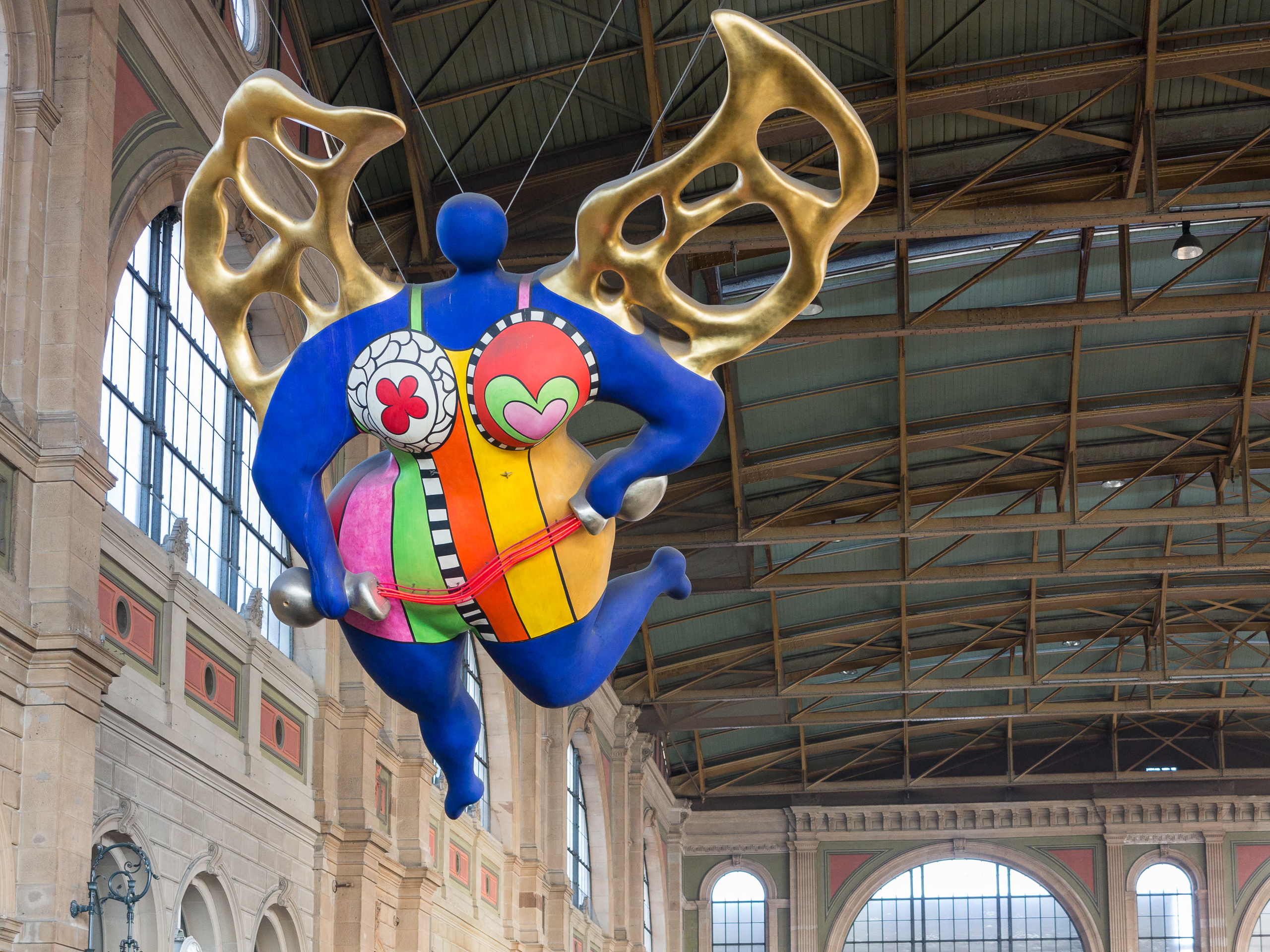 Nana Angel of Niki de Saint Phalles in the hall of Zurich main station